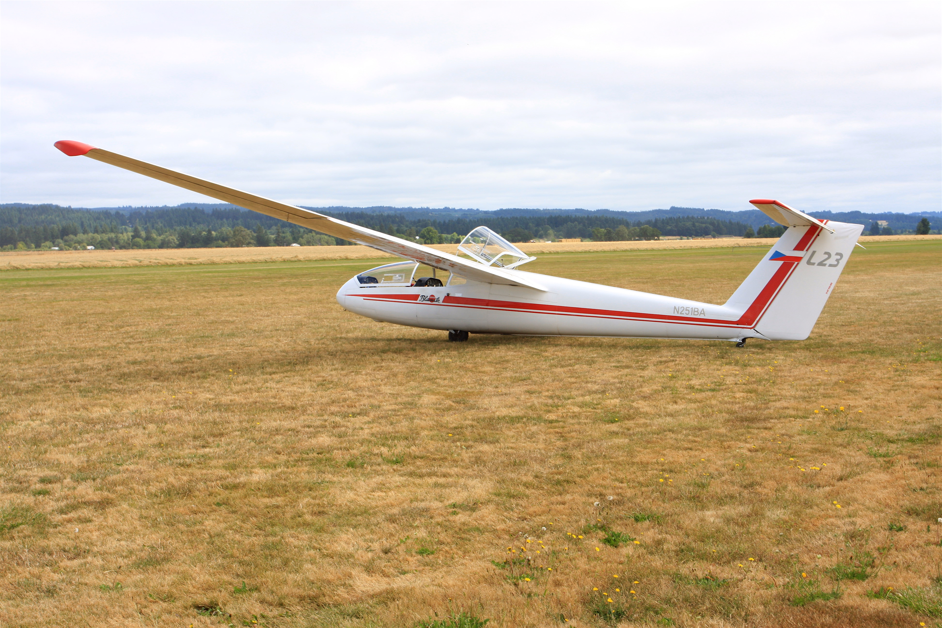 Glider at Willamete Valley Soaring Club - North Plains, Oregon